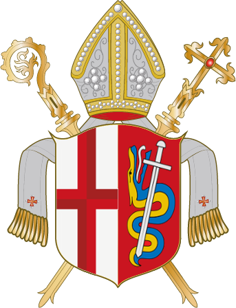 Coat of arms of Diocese of Limburg